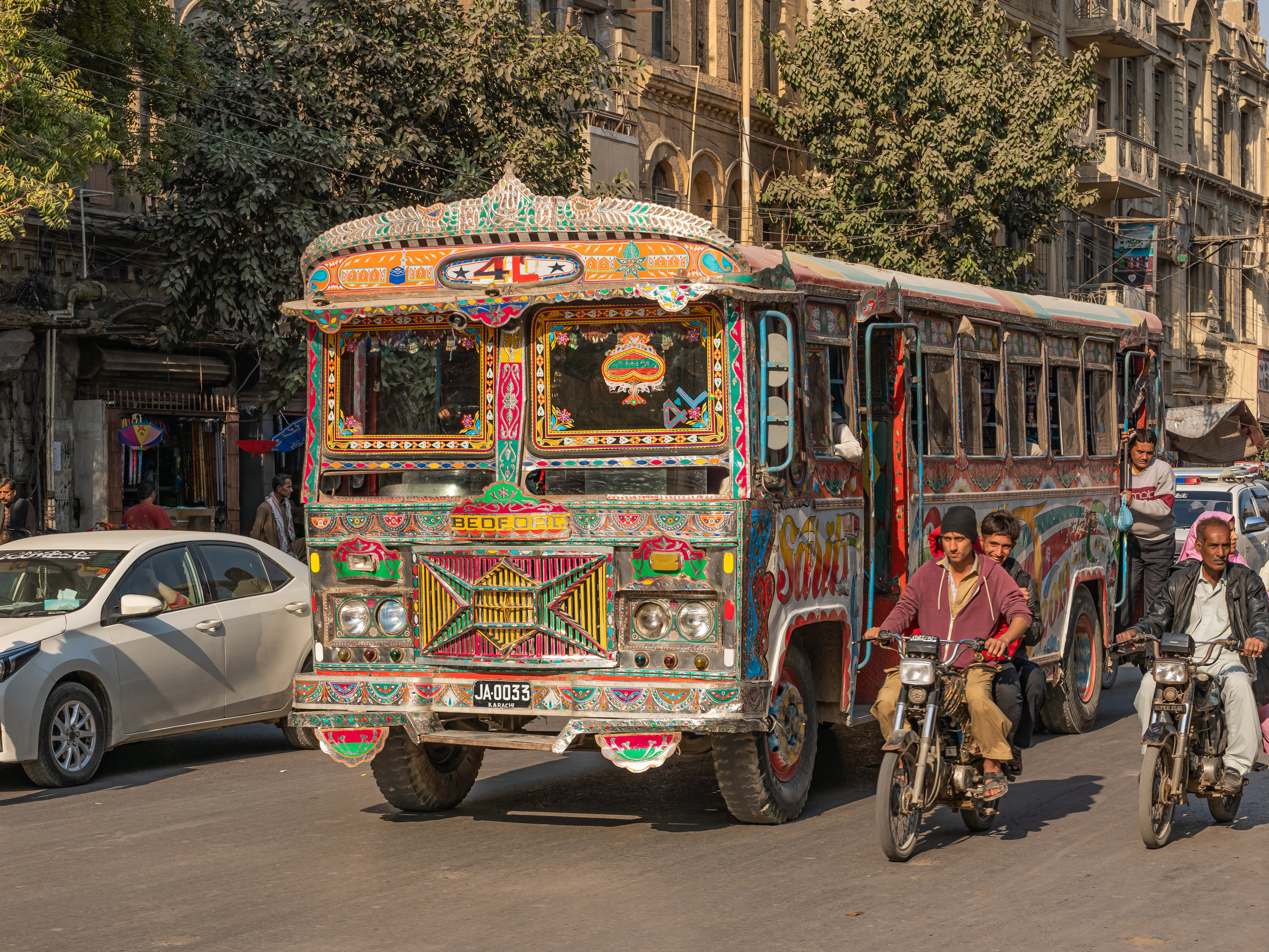 Public bus at M. A. Jinnah Road in Karachi, Pakistan